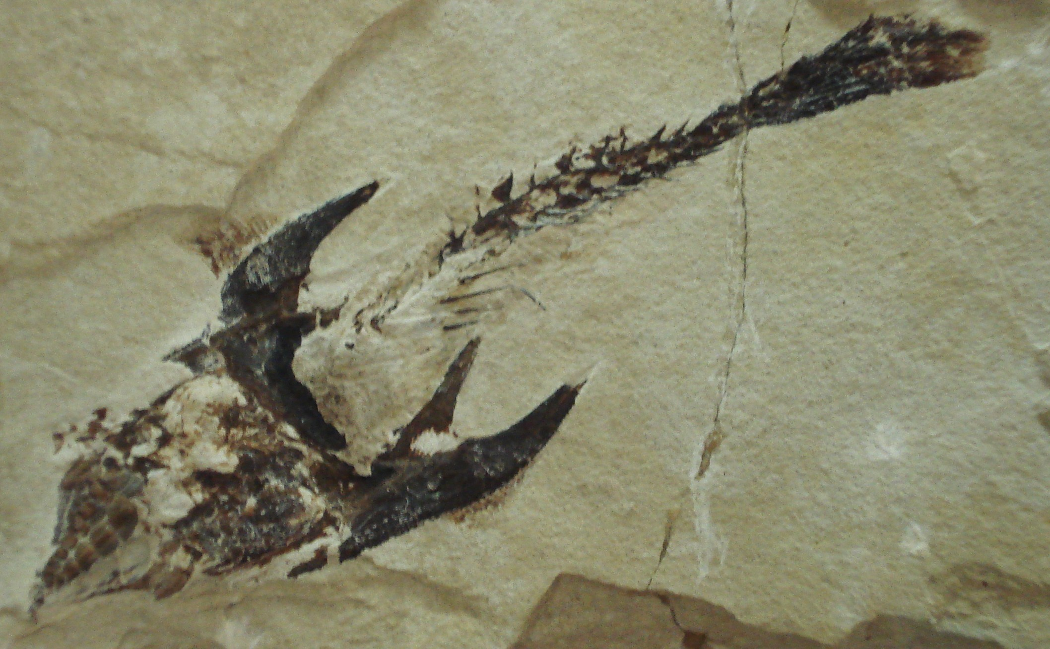 Fossil of Coccodus insignis, an extinct fish